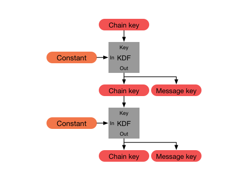 DRA two steps